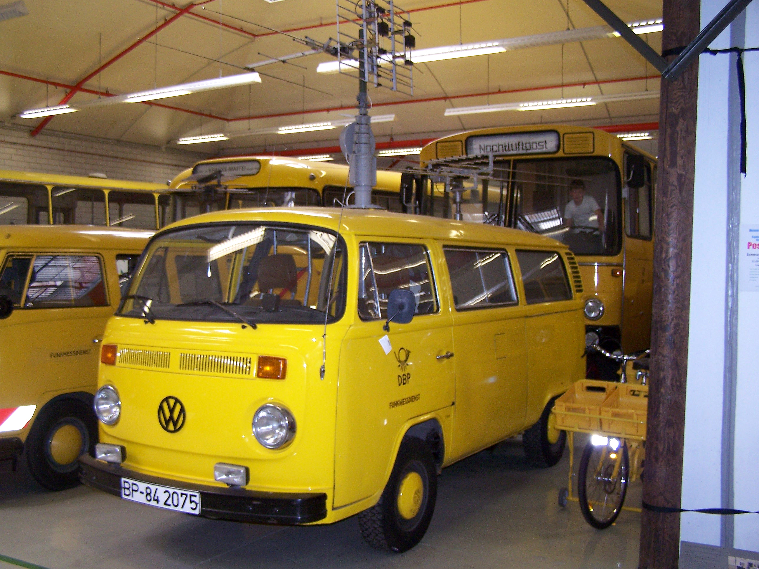 Volkswagen T2 box wagon as a funk monitoring car of the Deutsche Bundespost, in the depot of the Museum for communication Frankfurt am Main in Heusenstamm